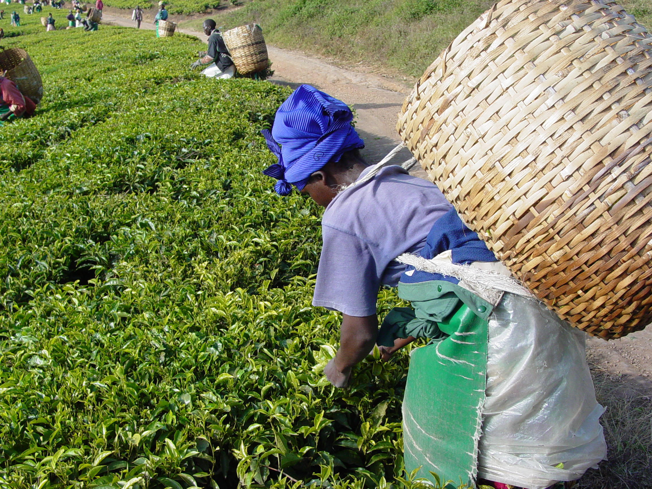 Plantation worker picking tea in southern highlands of Iringa Region, Tanzania